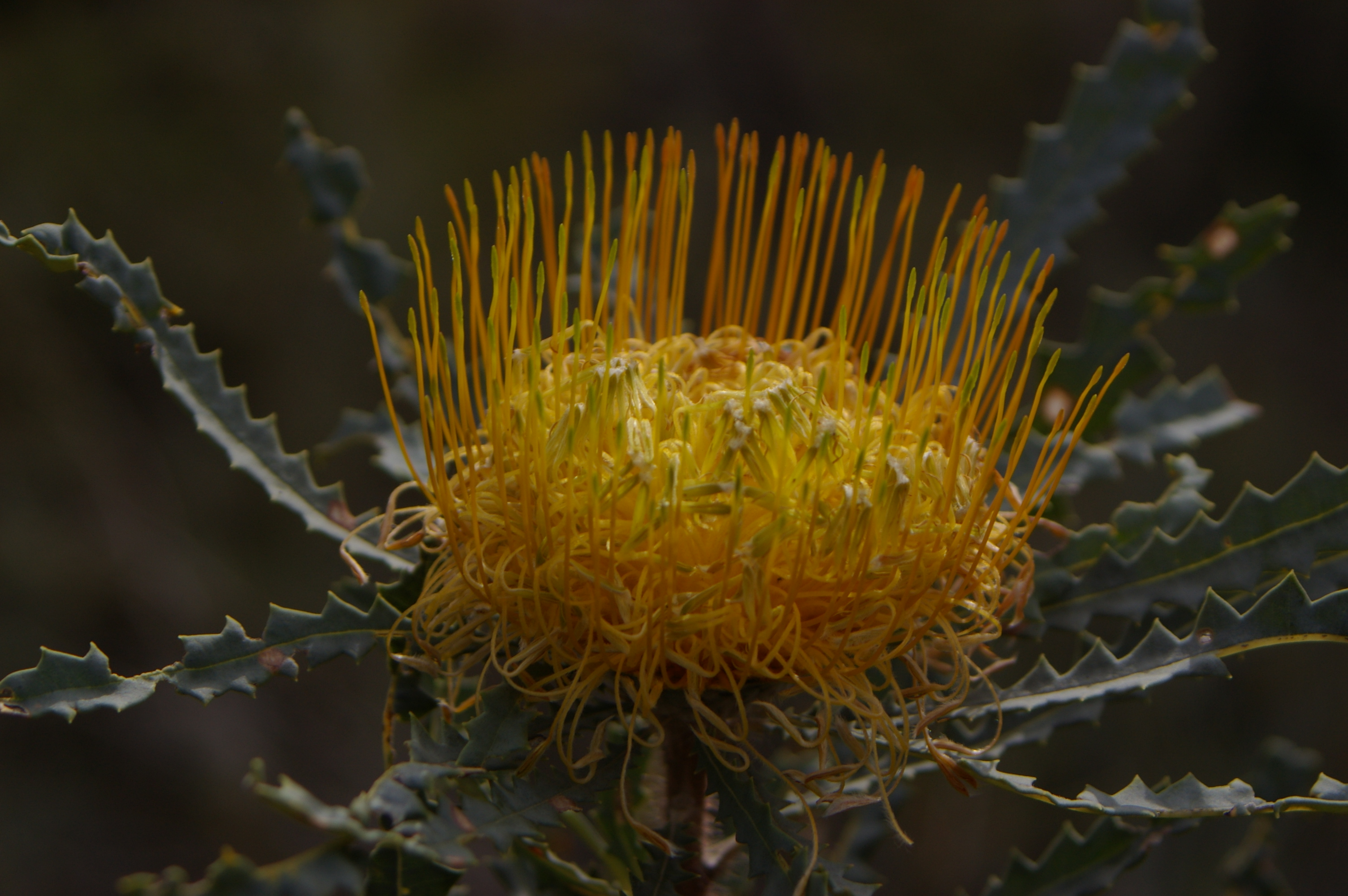 Banksia nobilis common name Golden Dryandra, all photo were taken within the Dryandra Woodland conservation reserve